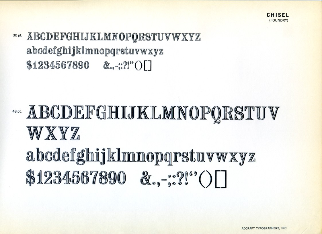 Chisel Type Specimen